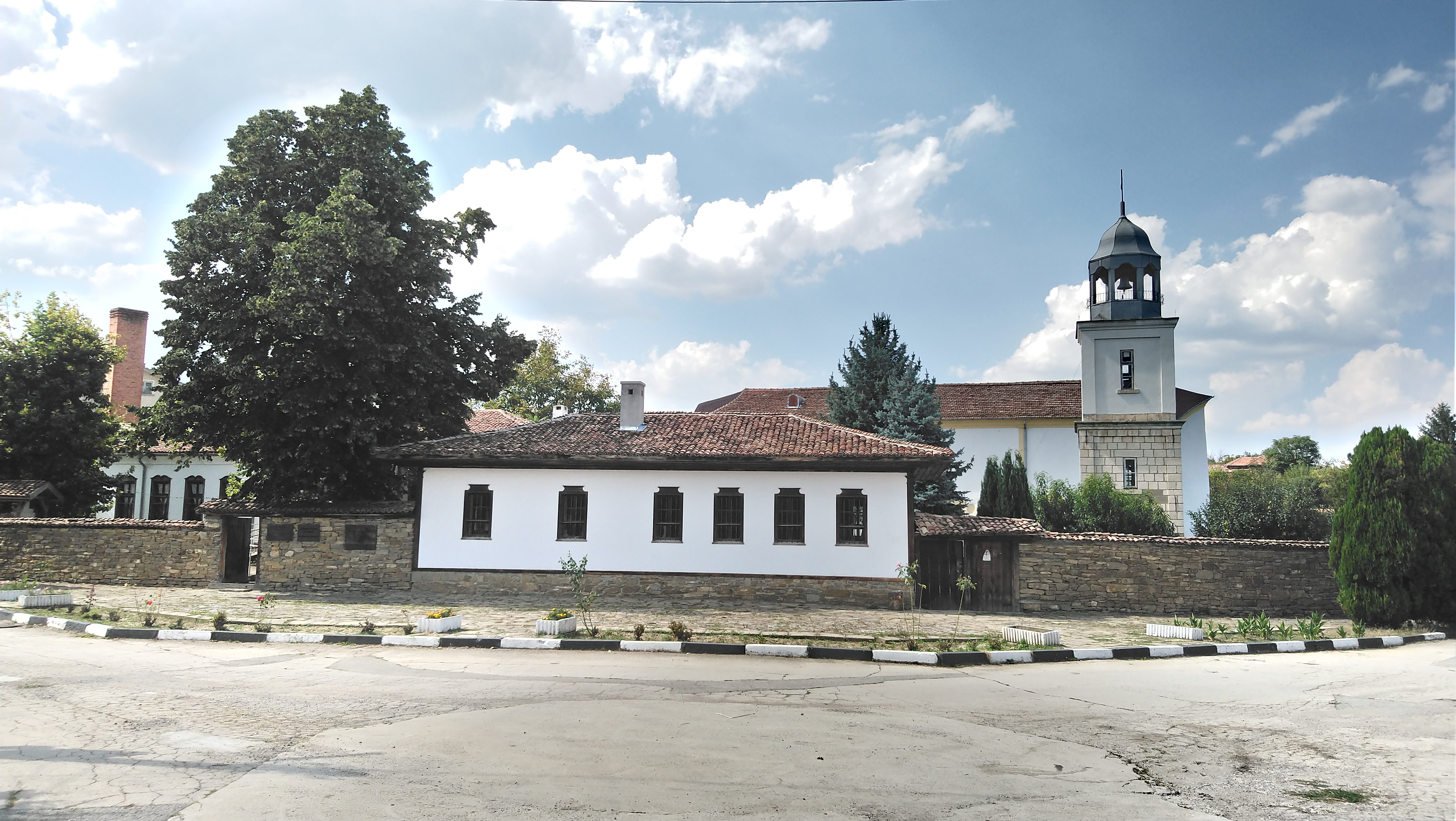 Smyadovo church "St. Archangel Michael" and Art Gallery "Stoycho Presnakov"